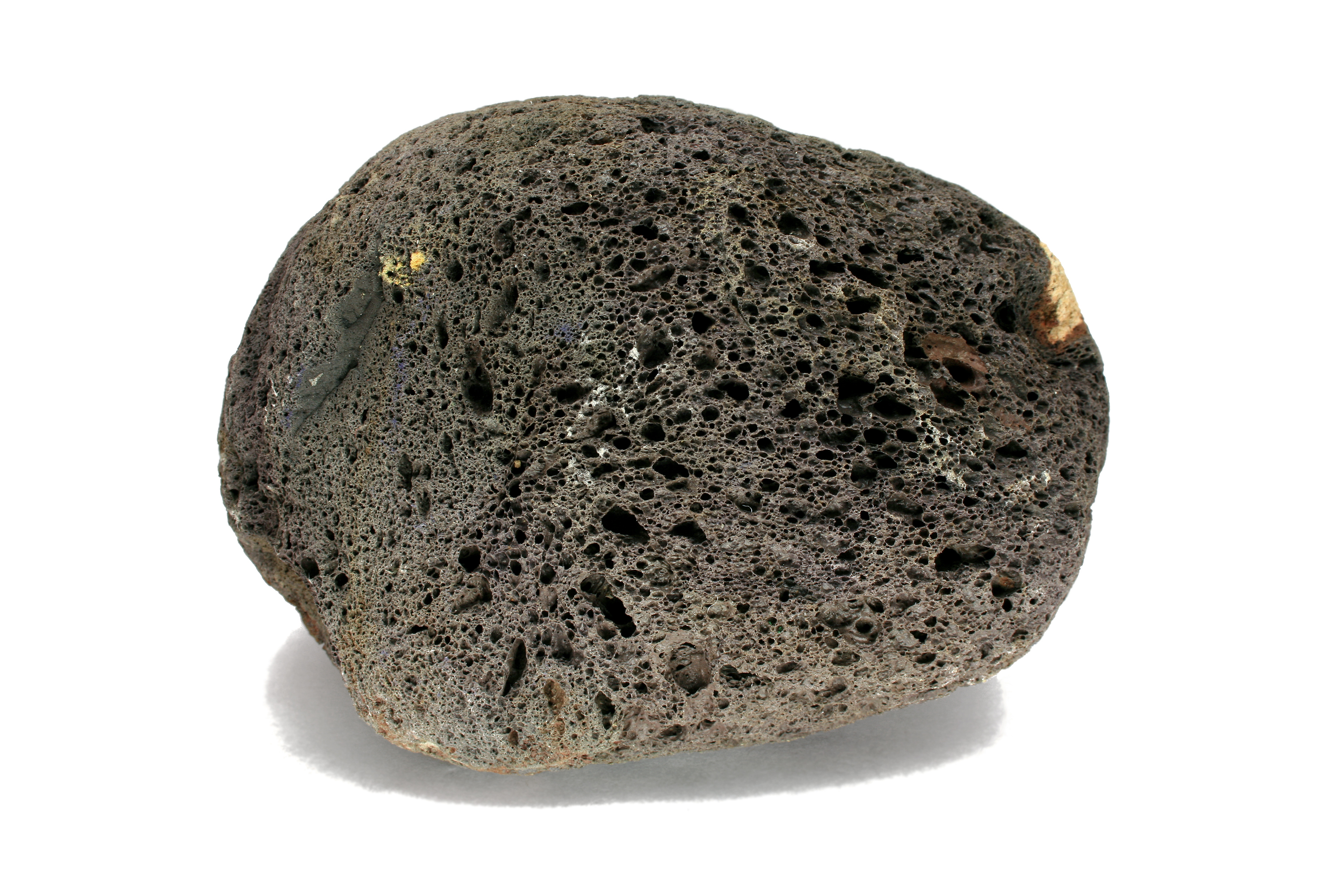 Macro of Scoria, about 4 inches (10 cm) in size.